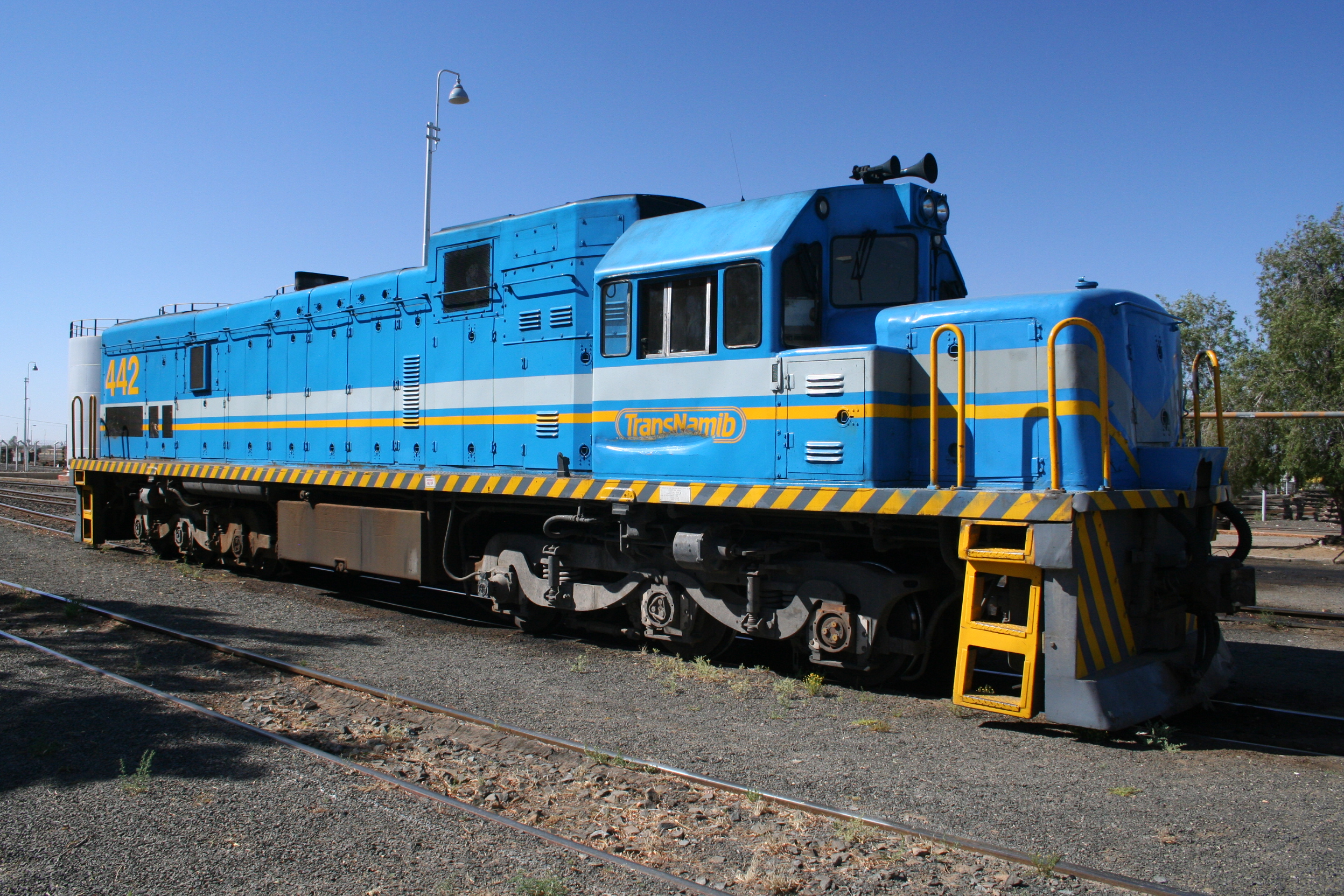 South African Class 33-400 33-442, renumbered 442 by TransNamibBuilder's Number: GE 36571Type: GE U20CLocation: Keetmanshoop, Namibia